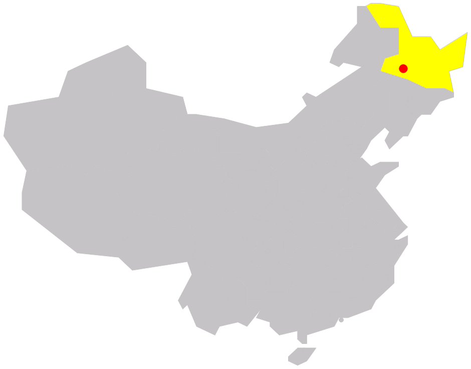 position of Daqing in China